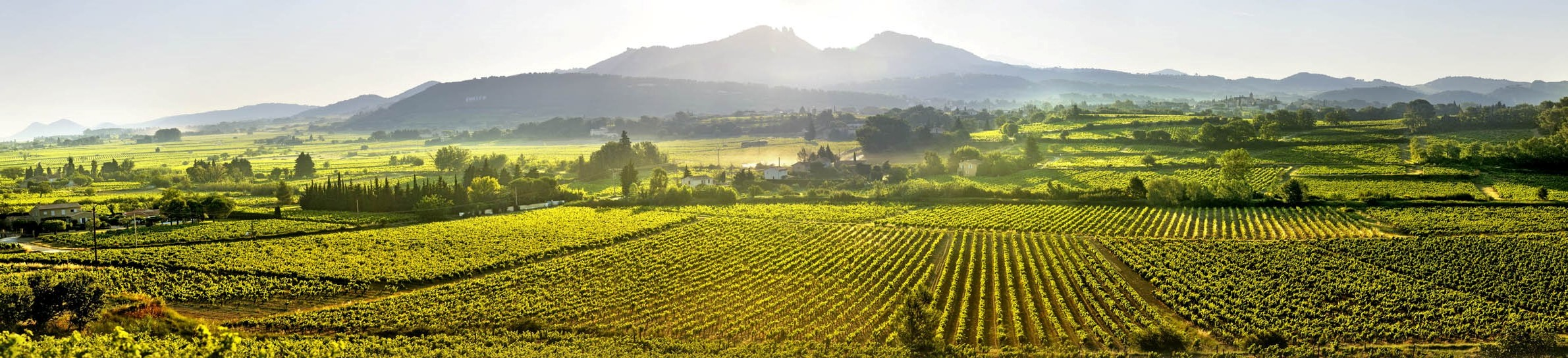 Terroir de Vacqueyras